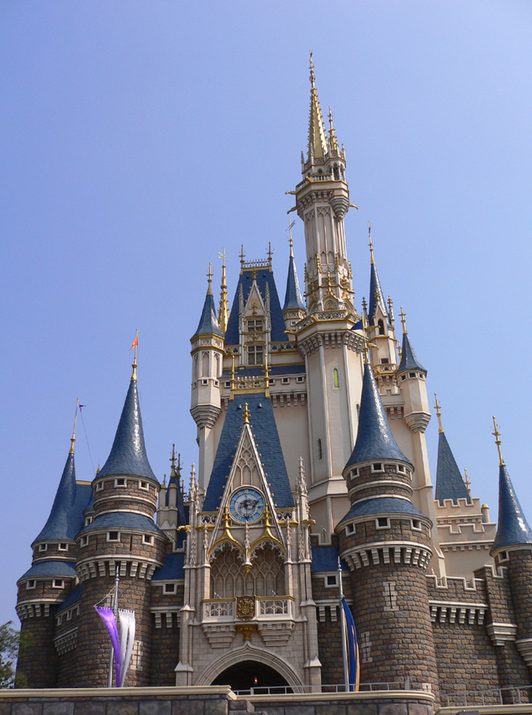 Cinderella Castle (Tokyo Disneyland, Tokyo Disney Resort)